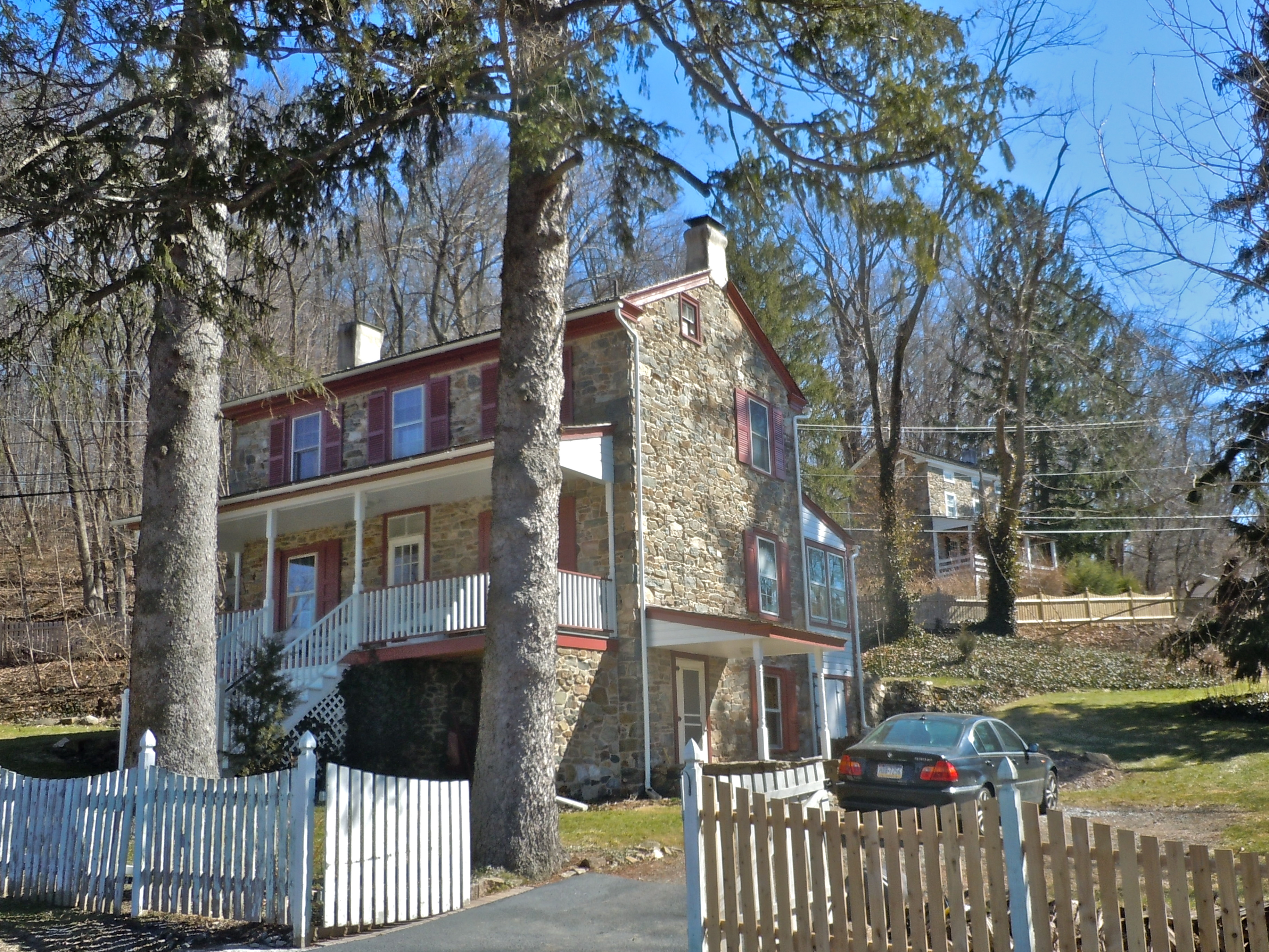 McDermot house in Birchrunville Historic District. HD on the NRHP since April 28, 1992, and is located near the junction of Flowing Springs Road and Schoolhouse Ln. around Birchrunville, West Vincent Township, Chester County, Pennsylvania. The house is about 1 block north of the junction of the roads.